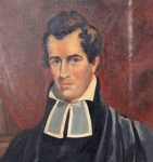 Philip Lindsley (1786 – 1855) was an American Presbyterian minister, educator and classicist. He served as the acting president of the College of New Jersey (now Princeton University)